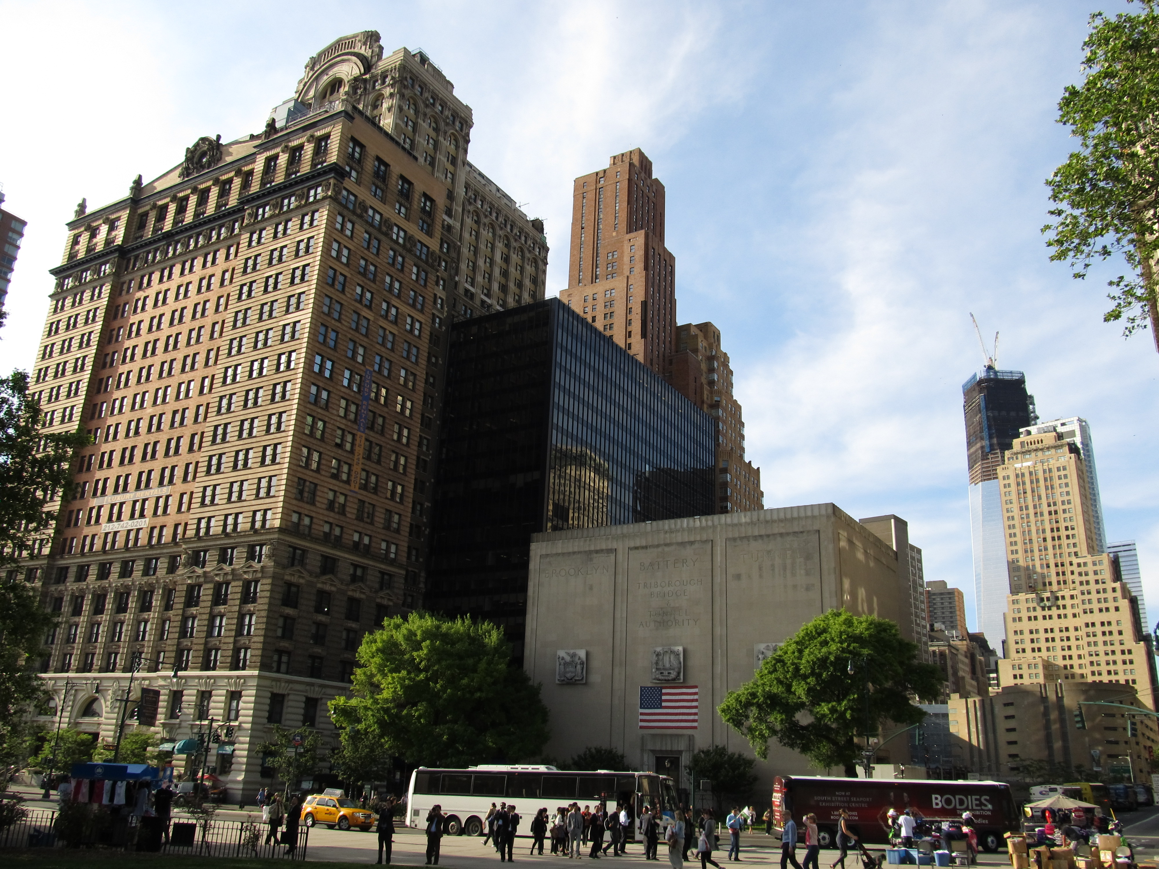 The Whitehall Building is a 20-story skyscraper located at 17 Battery Place, across the street from Battery Park in lower Manhattan in New York City. The original building was constructed from 1902-1904 as a speculative office building designed by architect Henry Hardenbergh. It was named for Peter Stuyvesant's 17th-century home, "White Hall", which had been located nearby. It was converted to apartments in 1999. The Brooklyn–Battery Tunnel, officially known as the Hugh L. Carey Tunnel, is a toll road in New York City which crosses under the East River at its mouth, connecting the Borough of Brooklyn on Long Island with the Borough of Manhattan. The tunnel nearly passes underneath Governors Island, but does not provide vehicular access to the island. It consists of twin tubes, carrying four traffic lanes, and at 9,117 feet (2,779 m) is the longest continuous underwater vehicular tunnel in North America. It was opened to traffic in 1950. It currently carries the unsigned Interstate 478, and formerly carried New York State Route 27A.